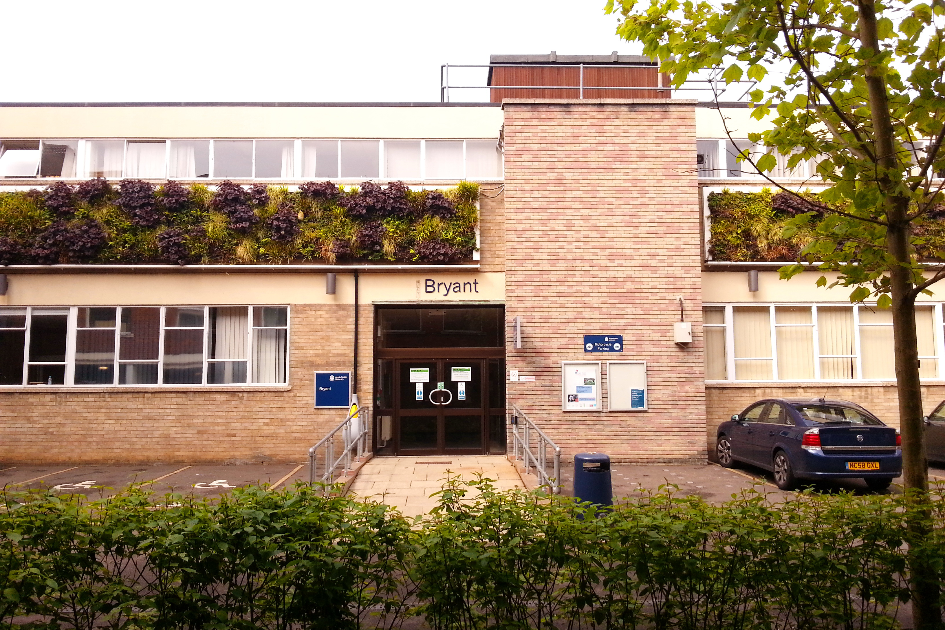 Bryant Building, named after historian Sir Arthur Bryant, houses the Postgrad Medical Institute (PMI) of Anglia Ruskin University.